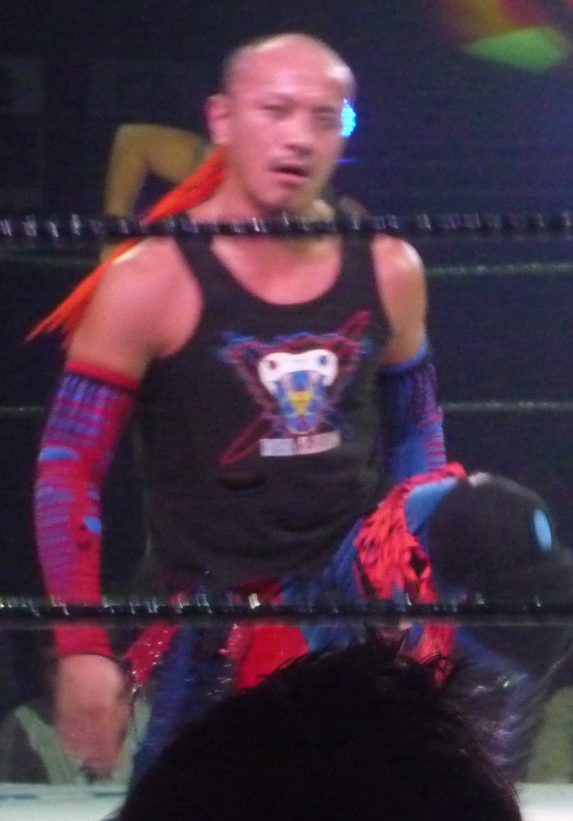 Japanese professional wrestler Genki Horiguchi in the ring at a Dragon Gate show in Oxford, England on 1 November 2009.